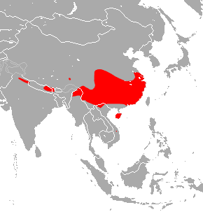 Chinese Rufous Horseshoe Bat (Rhinolophus sinicus) range